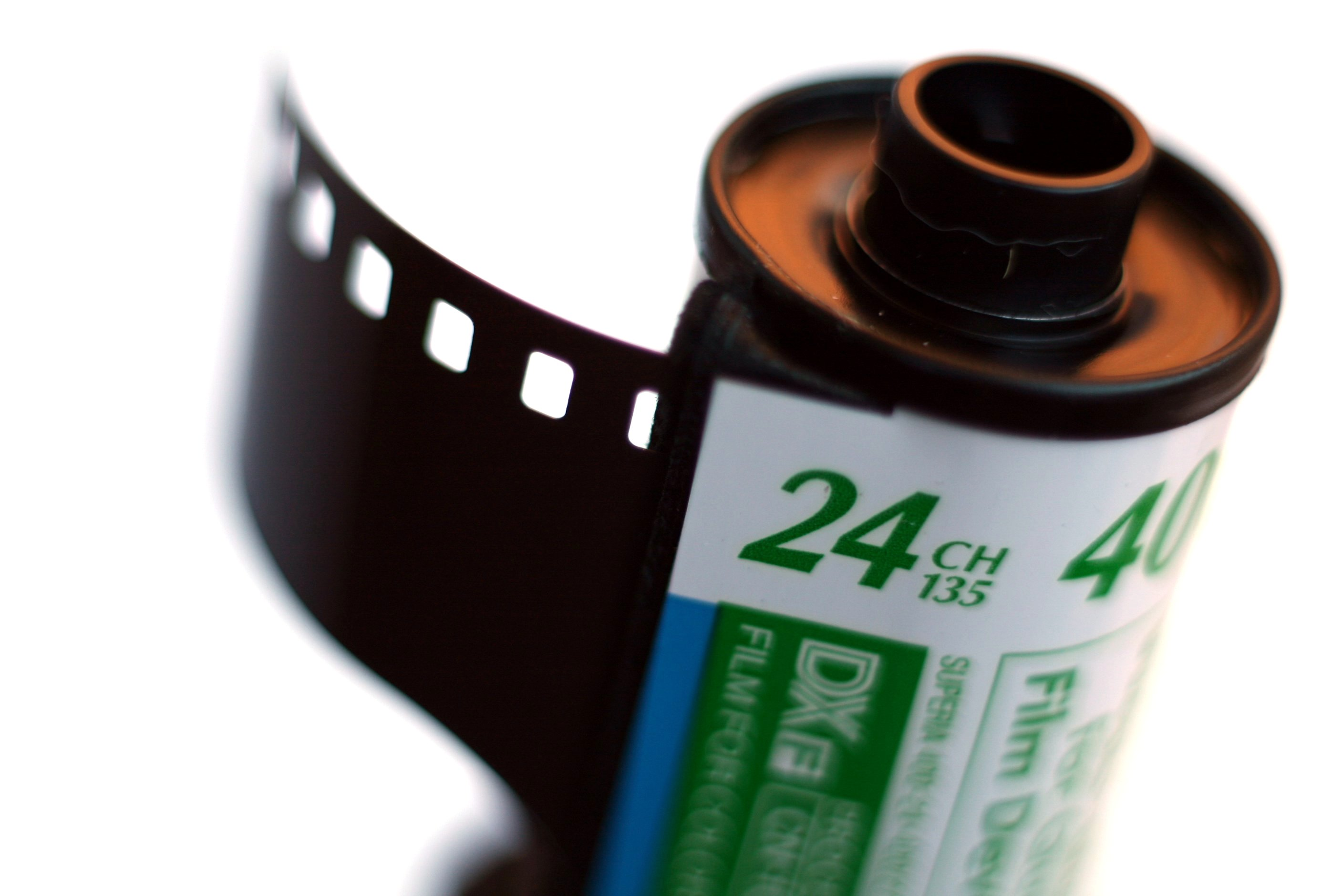 Macro shot of 135 Fuji ISO 400 colour film